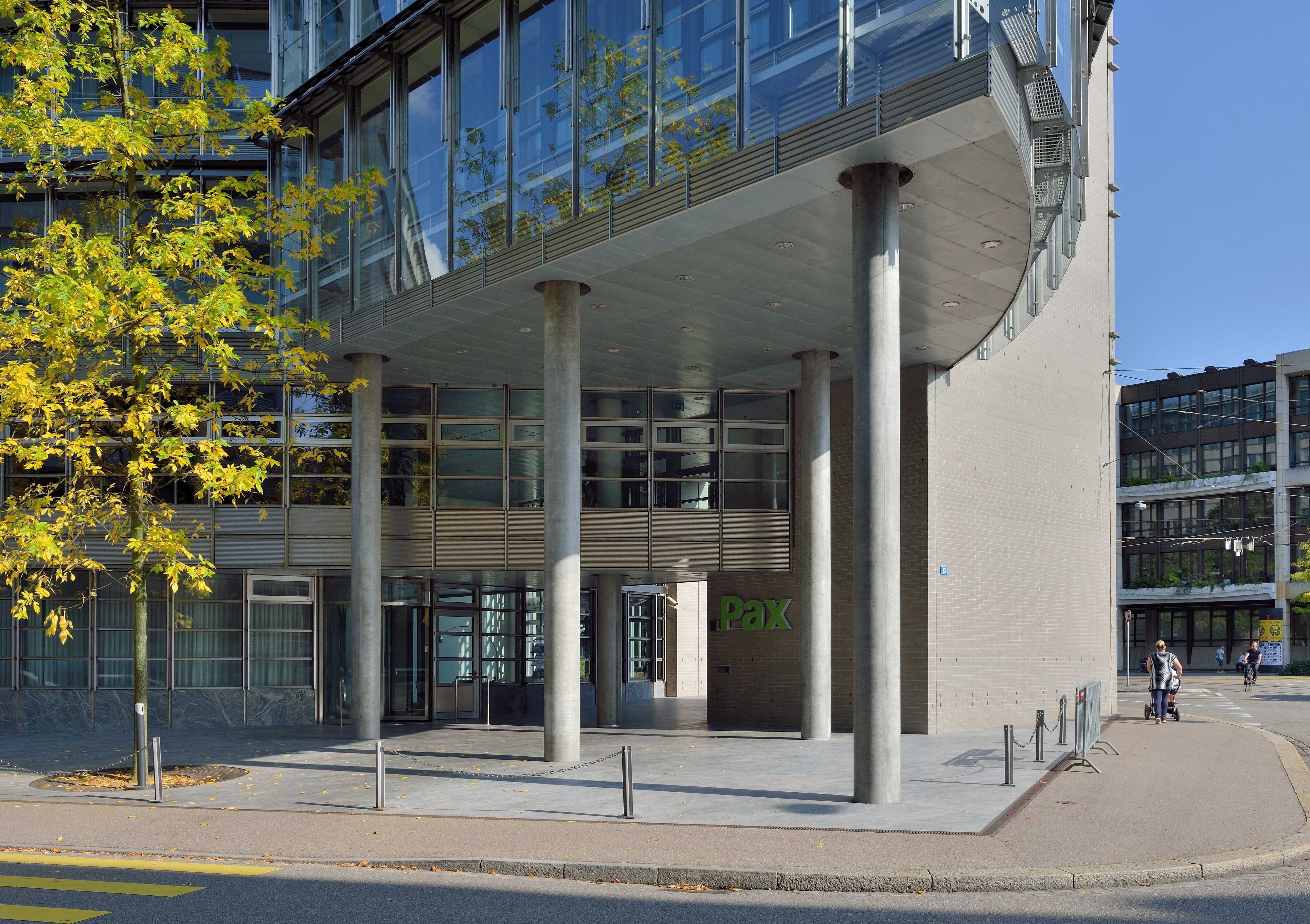 Pax Life Insurance